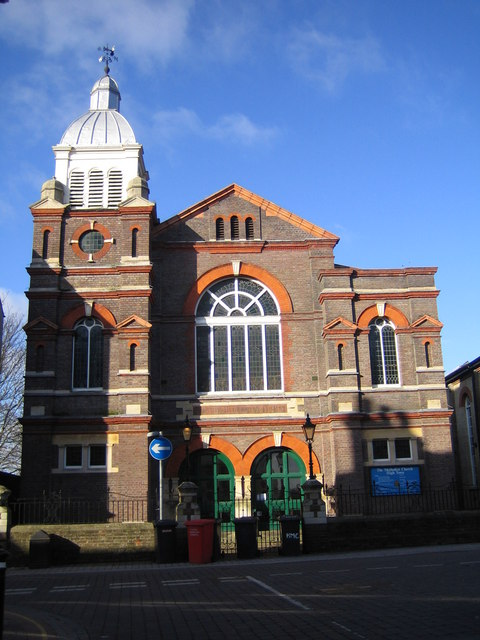 Luton: High Town Methodist Church (1) This is the former Primitive Methodist Chapel built in 1897 on the north west side of High Town Road. It is one of an adjacent pair of chapels, which, I think, now form the High Town Methodist Church.